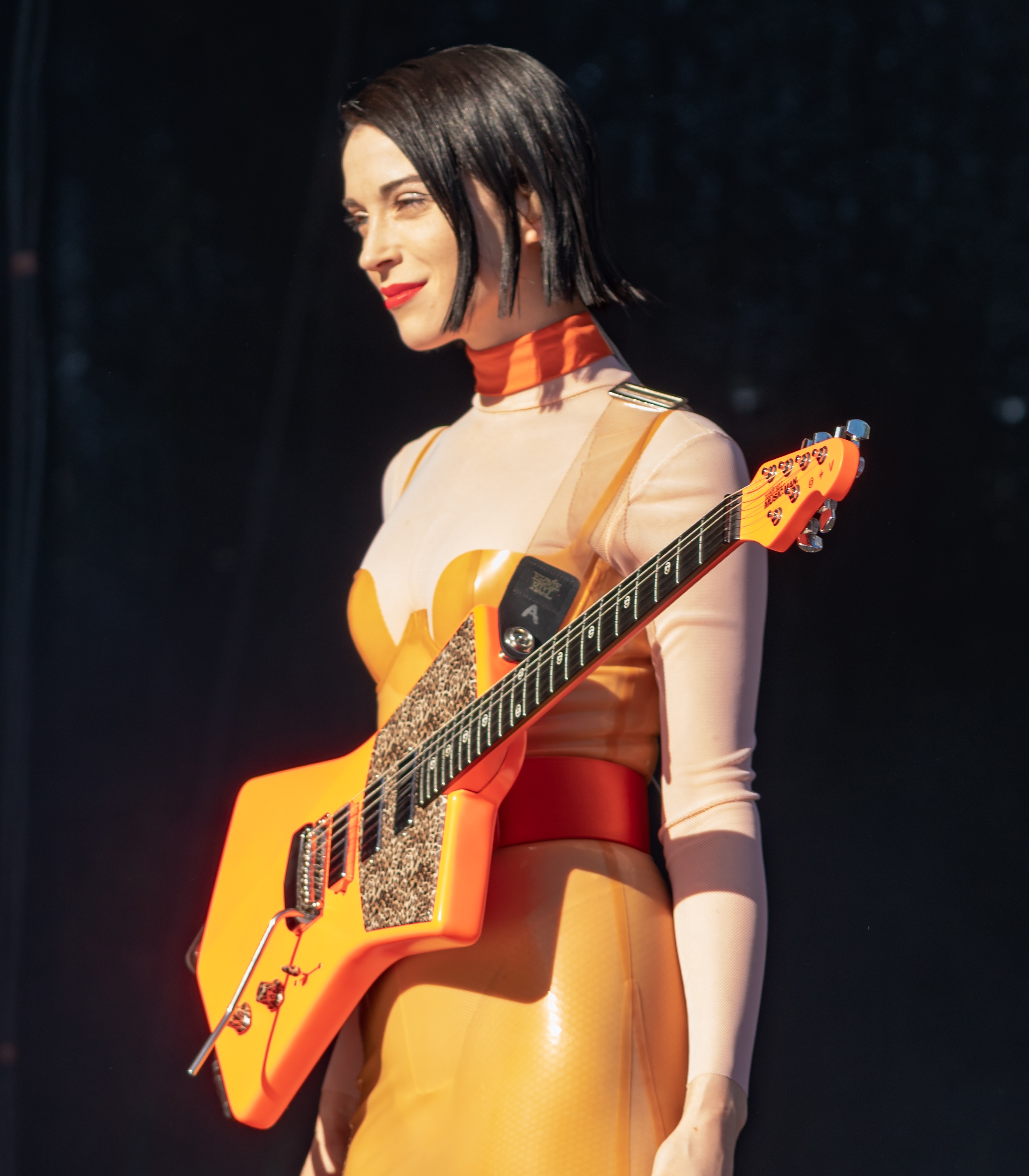 St. Vincent - Way Out West Festival, Gothenborg, Sweden, 2018